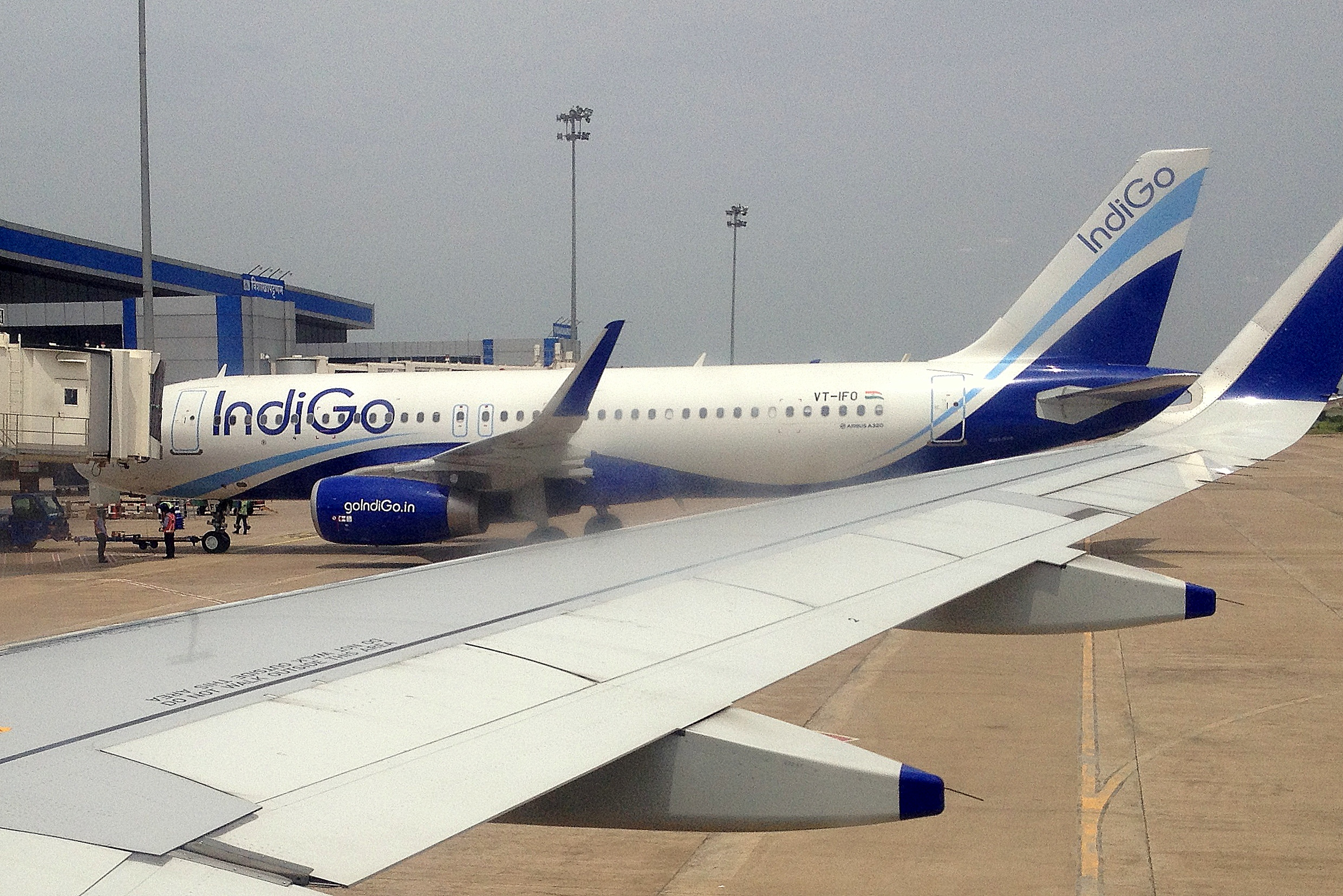 Visakhapatnam International Airport